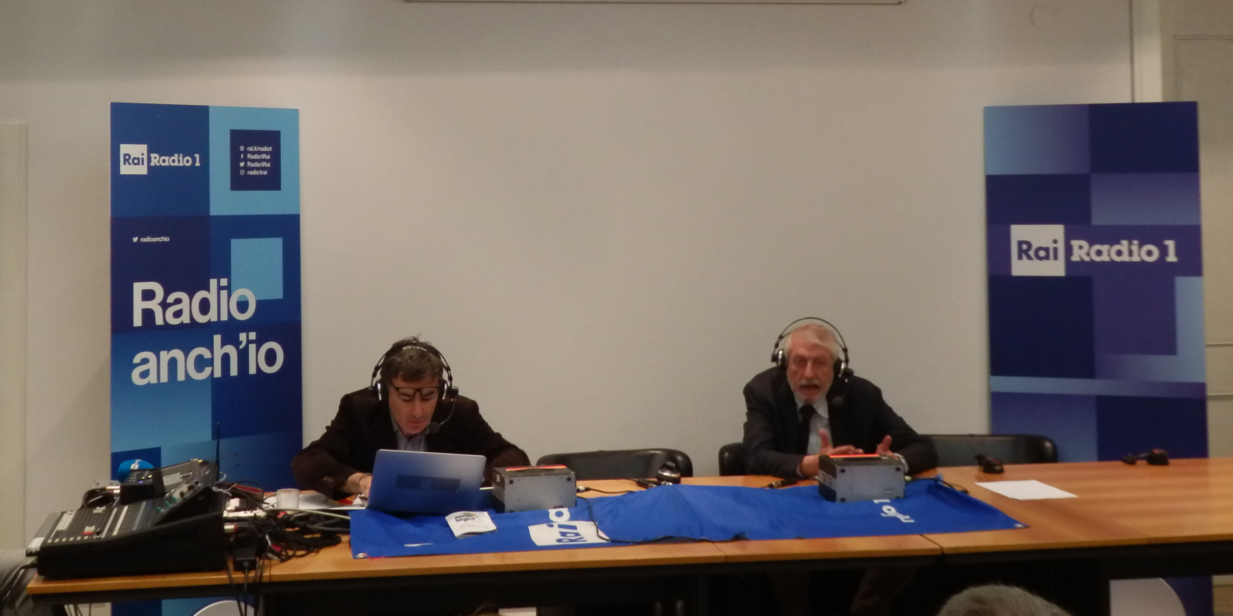 Giorgio Zanchini and Massimo Bordin, Diretta Rai Radio 1 Radio Anch'io, presso Hotel La Rosetta, Perugia